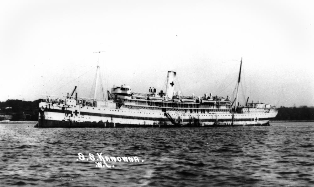 The AUSN Co passenger ship TSS Kanowna as hospital ship in the First World War